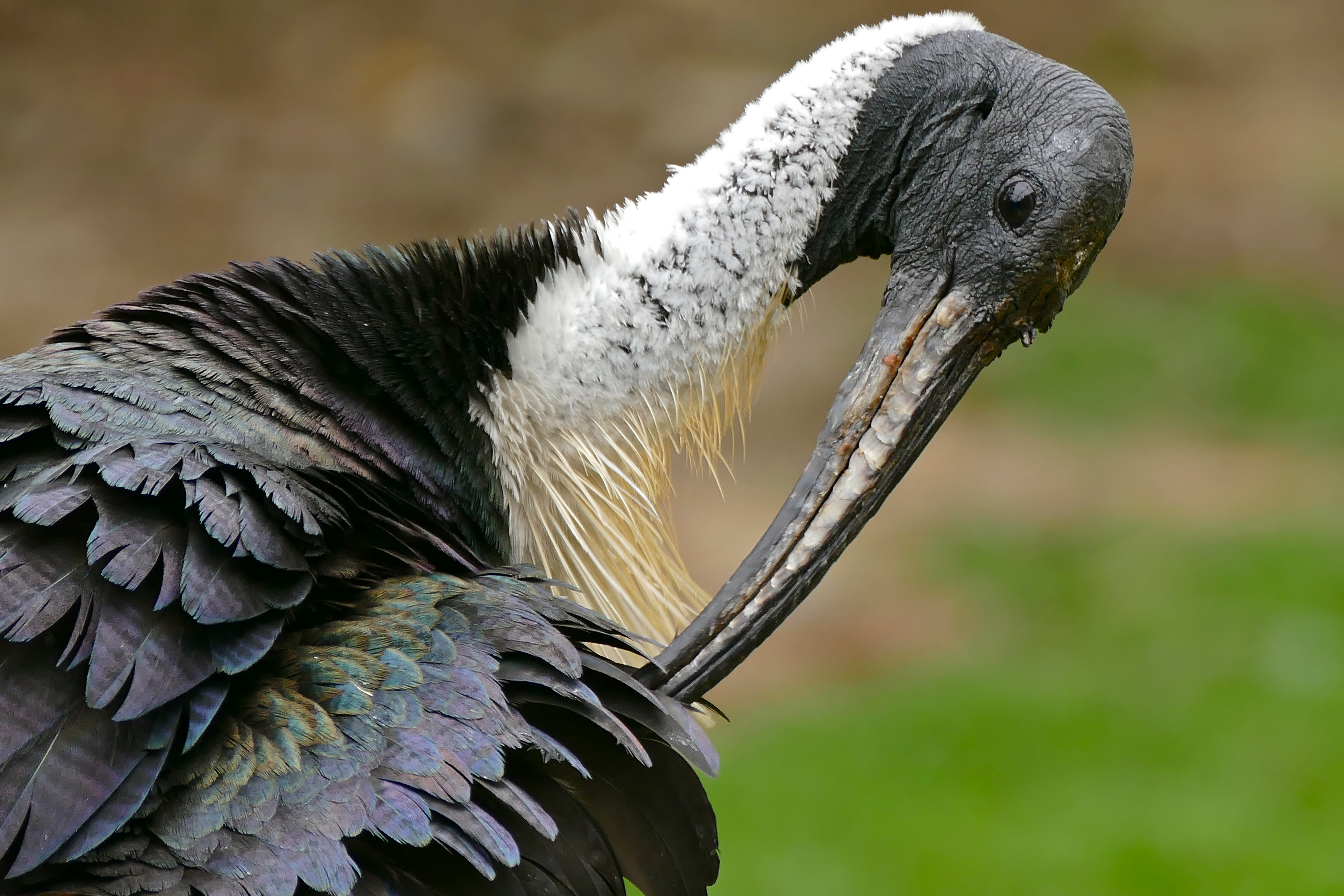 World of Birds, Hoot Bay, Cape Town, Western Cape, SOUTH AFRICA